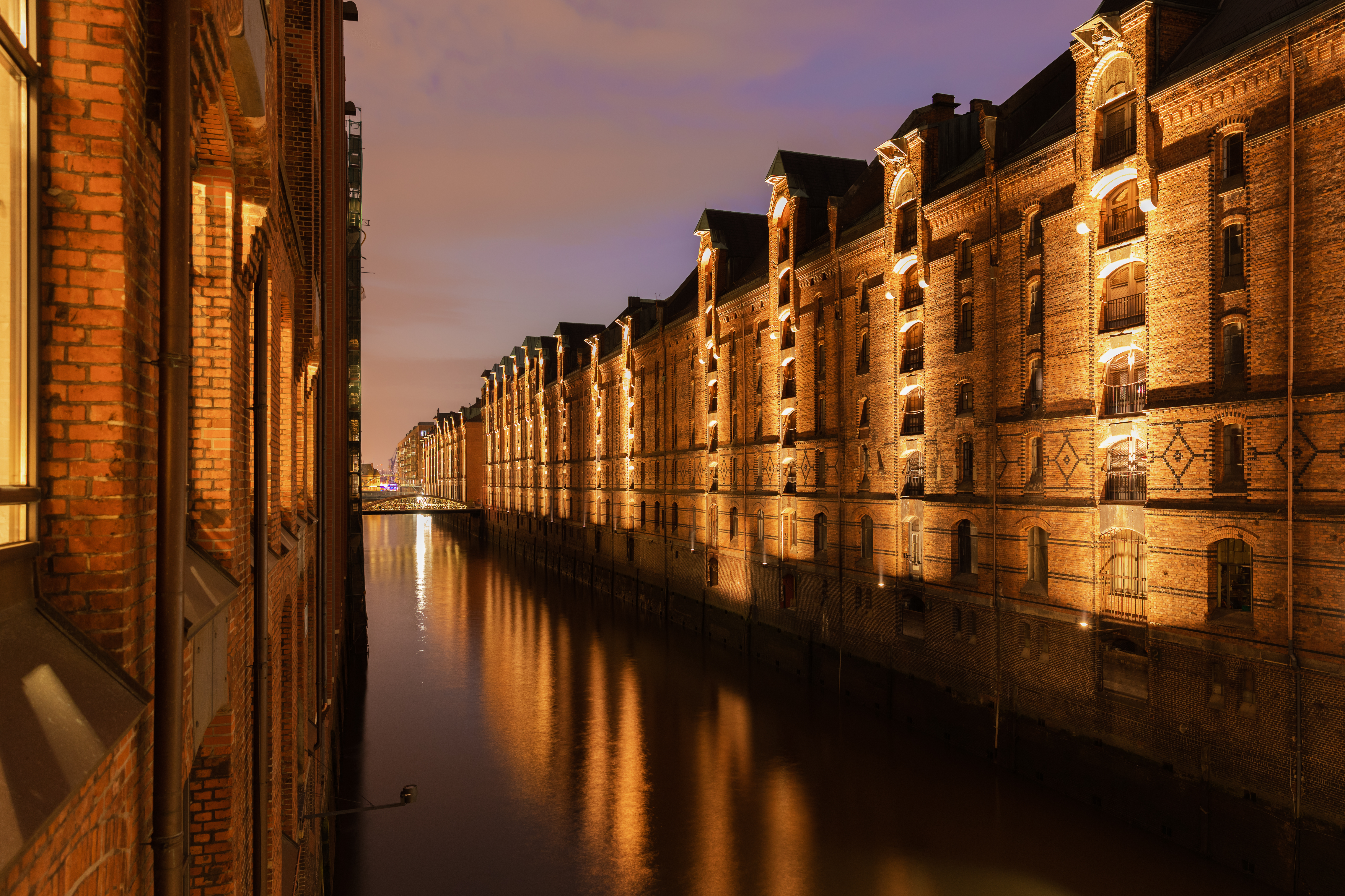 View of the Brooksfleet canal in the historic warehouse district Speicherstadt in Hamburg, Germany